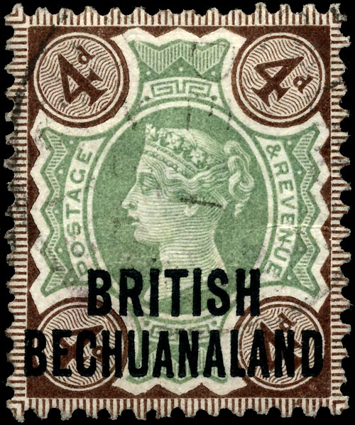 Bechuanaland 4-pence overprint stamp of 1891